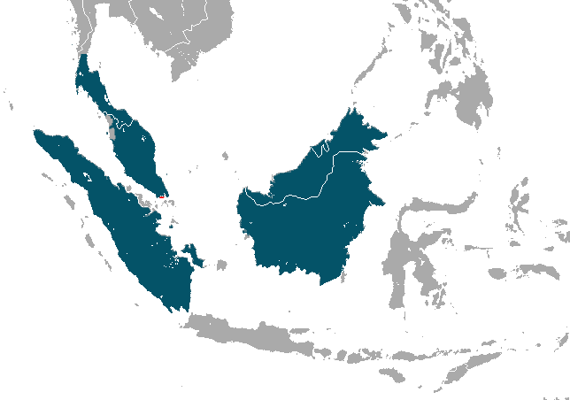 Southern Pig-tailed Macaque (Macaca nemestrina) range